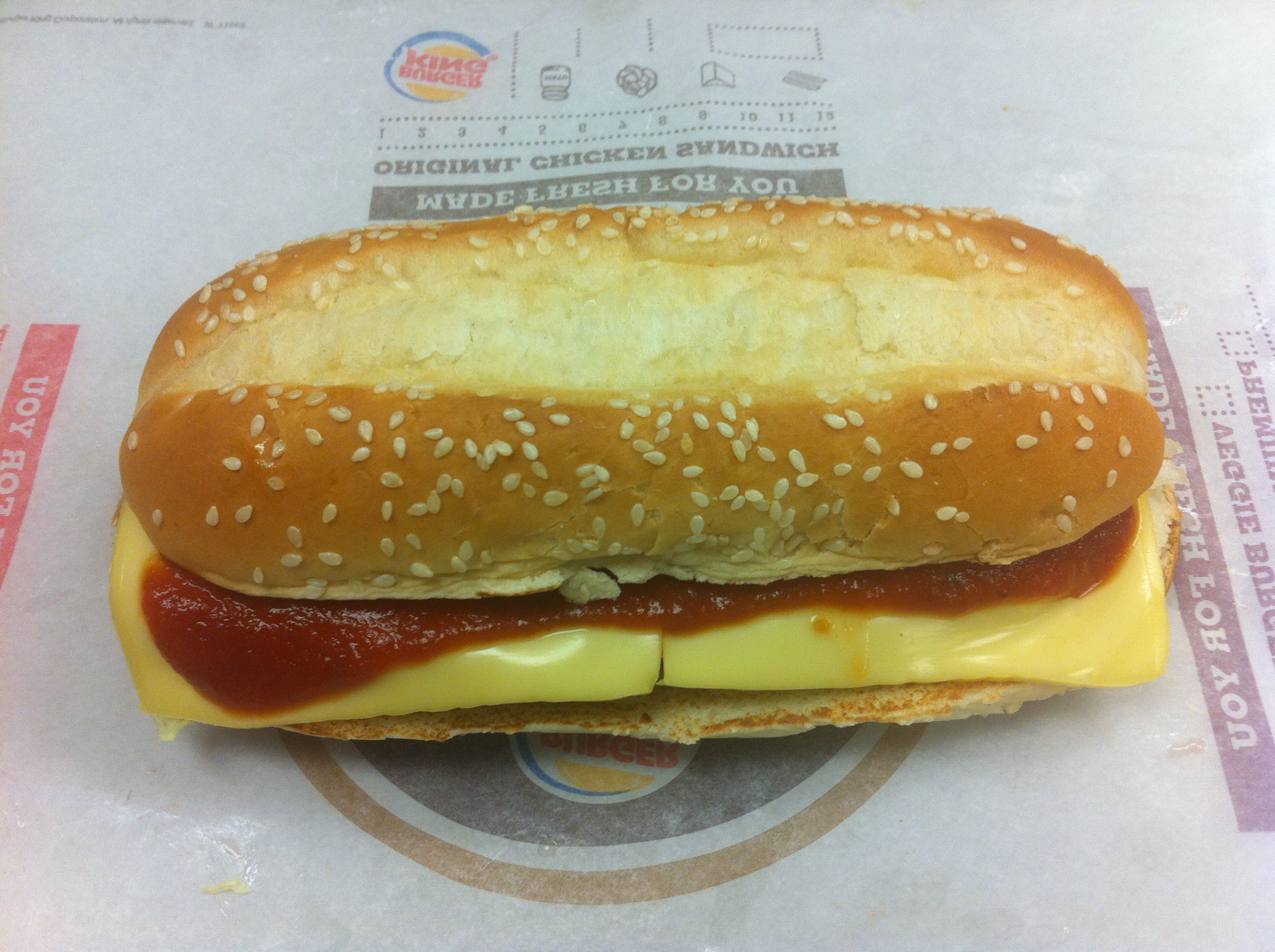 A Burger King Italian chicken sandwich, a type of chicken Parmesan sandwich.